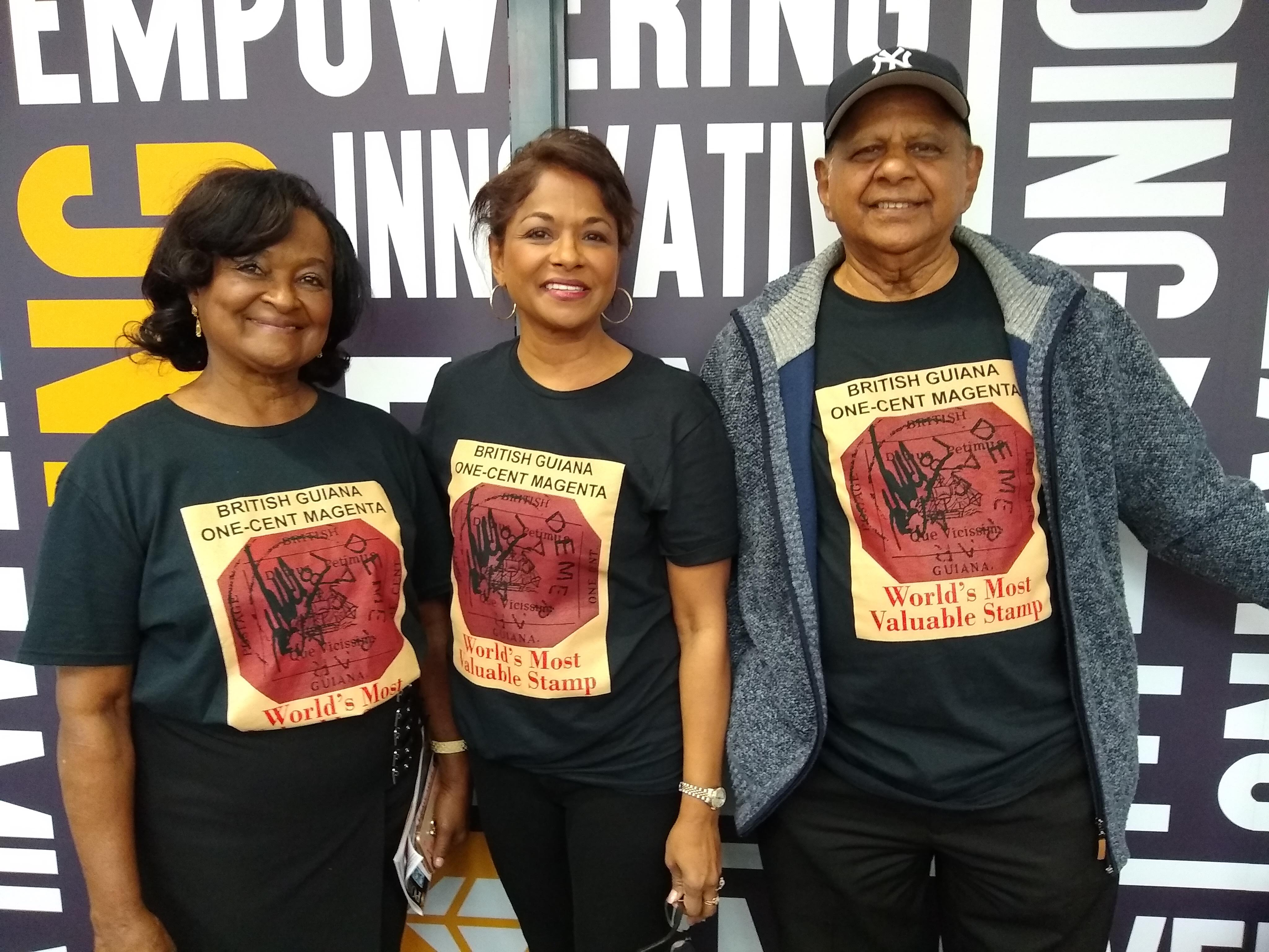 Guyana Philatelic Society members with British Guiana 1c magenta t-shirts. Ann Wood, president, centre.